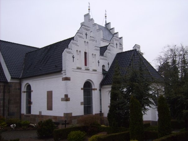 The church in Nørresundby, Aalborg in Denmark.